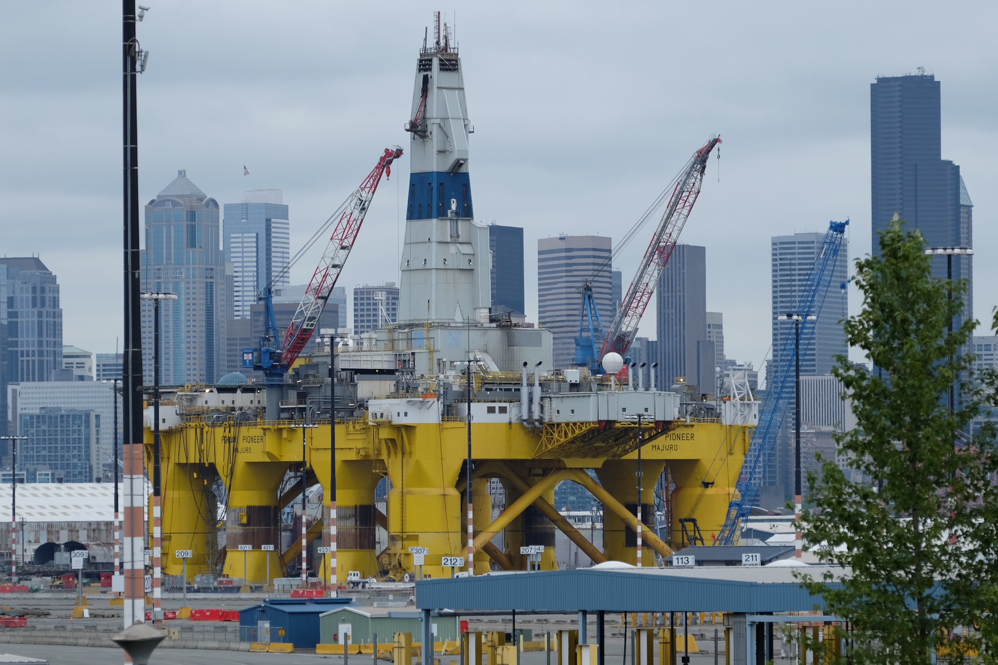 Royal Dutch Shell offshore drilling rig in port at Port of Seattle Terminal 5, in Seattle, Washington.